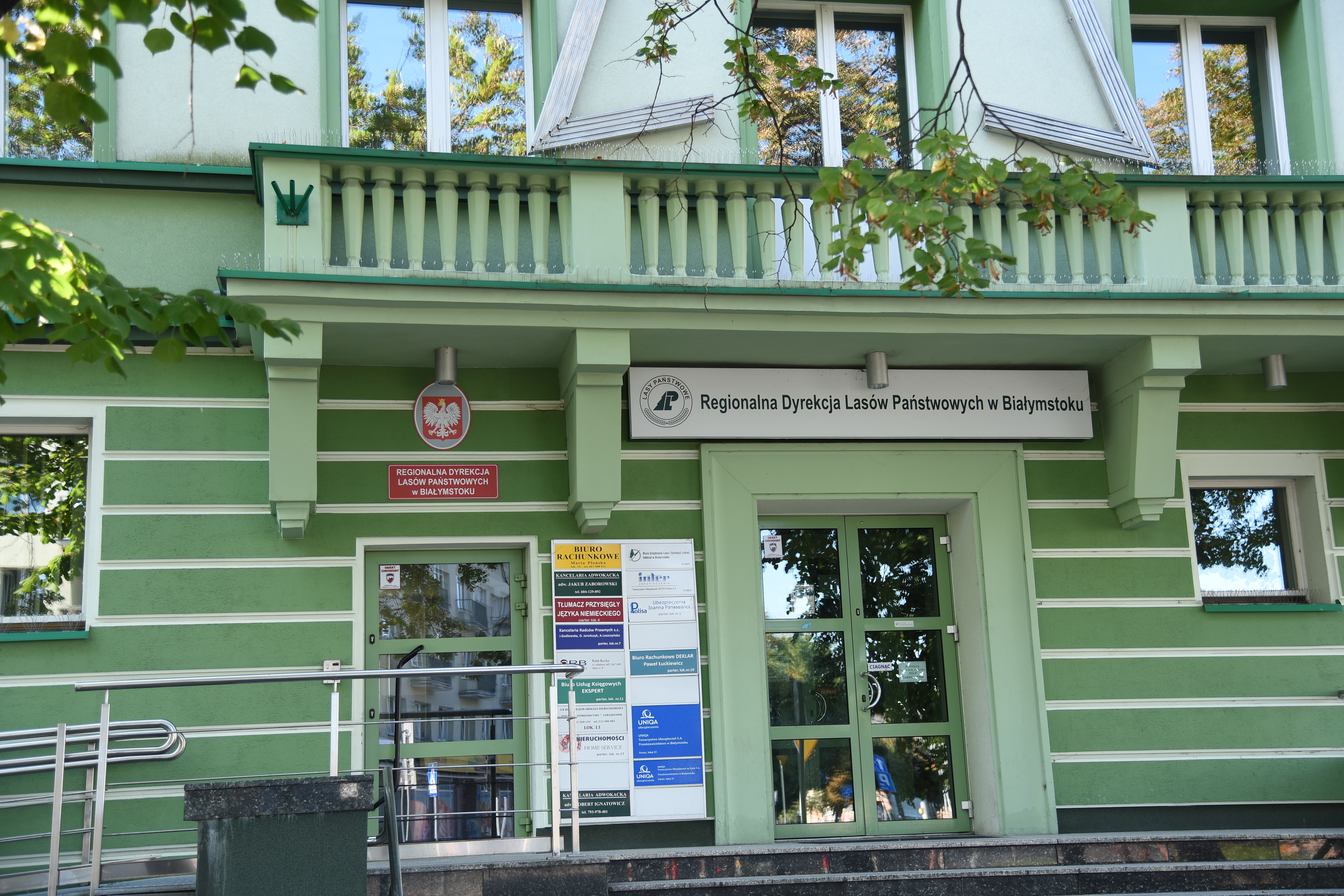 Regional Directorate of State Forests in Białystok